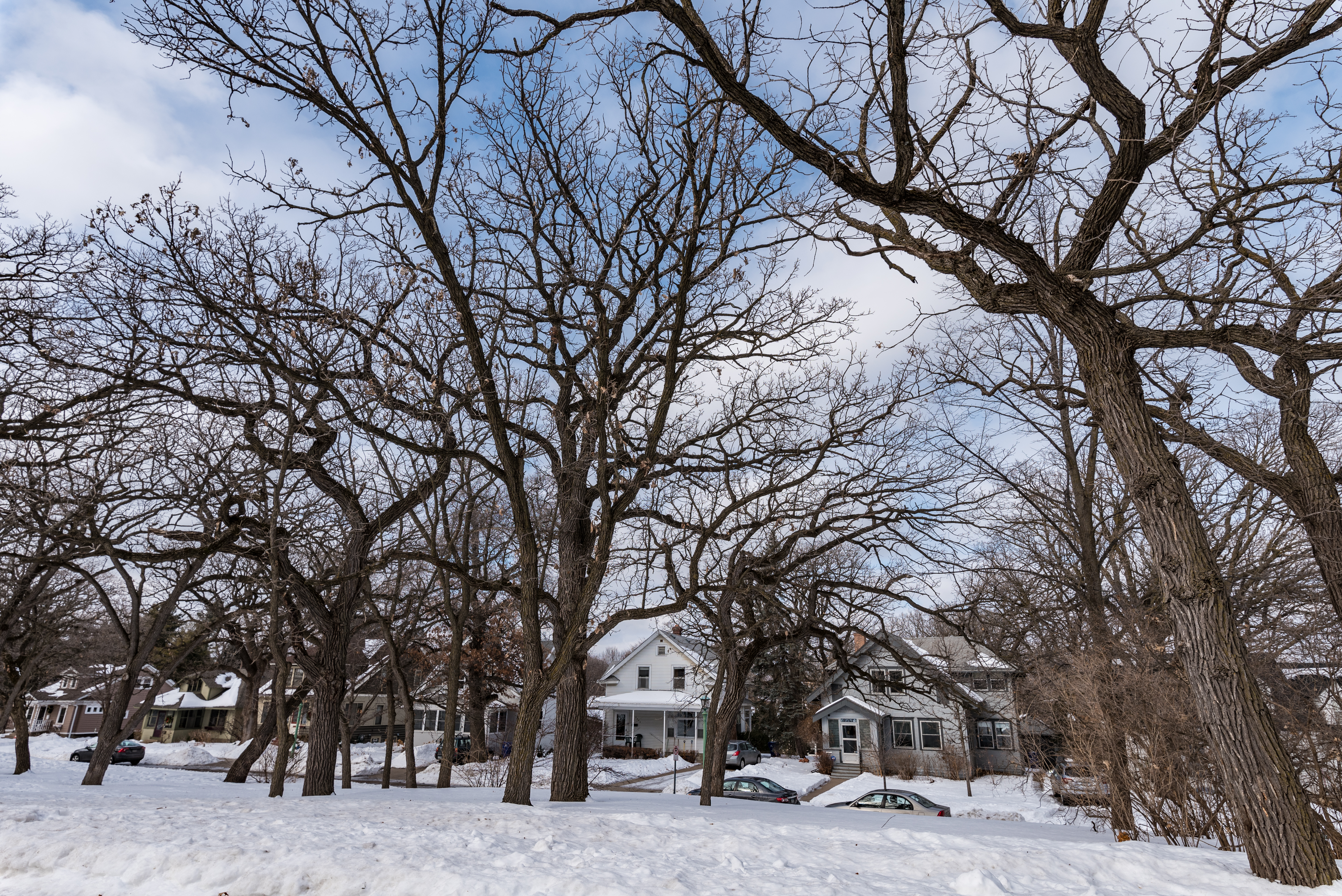 Commonwealth Park, a small green space sandwiched between directions of Commonwealth Avenue in the St. Anthony Park neighborhood of Saint Paul, Minnesota, in winter.